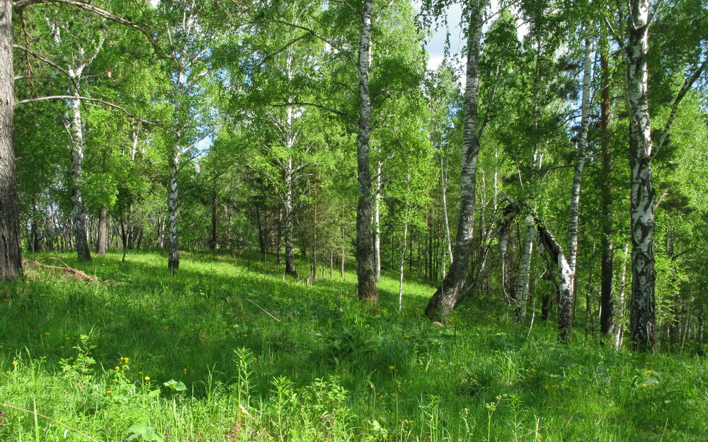 Birch forest (Betula pendula) in the sub-taiga zone of the West Sayan Mountain, 330 m above sea level.